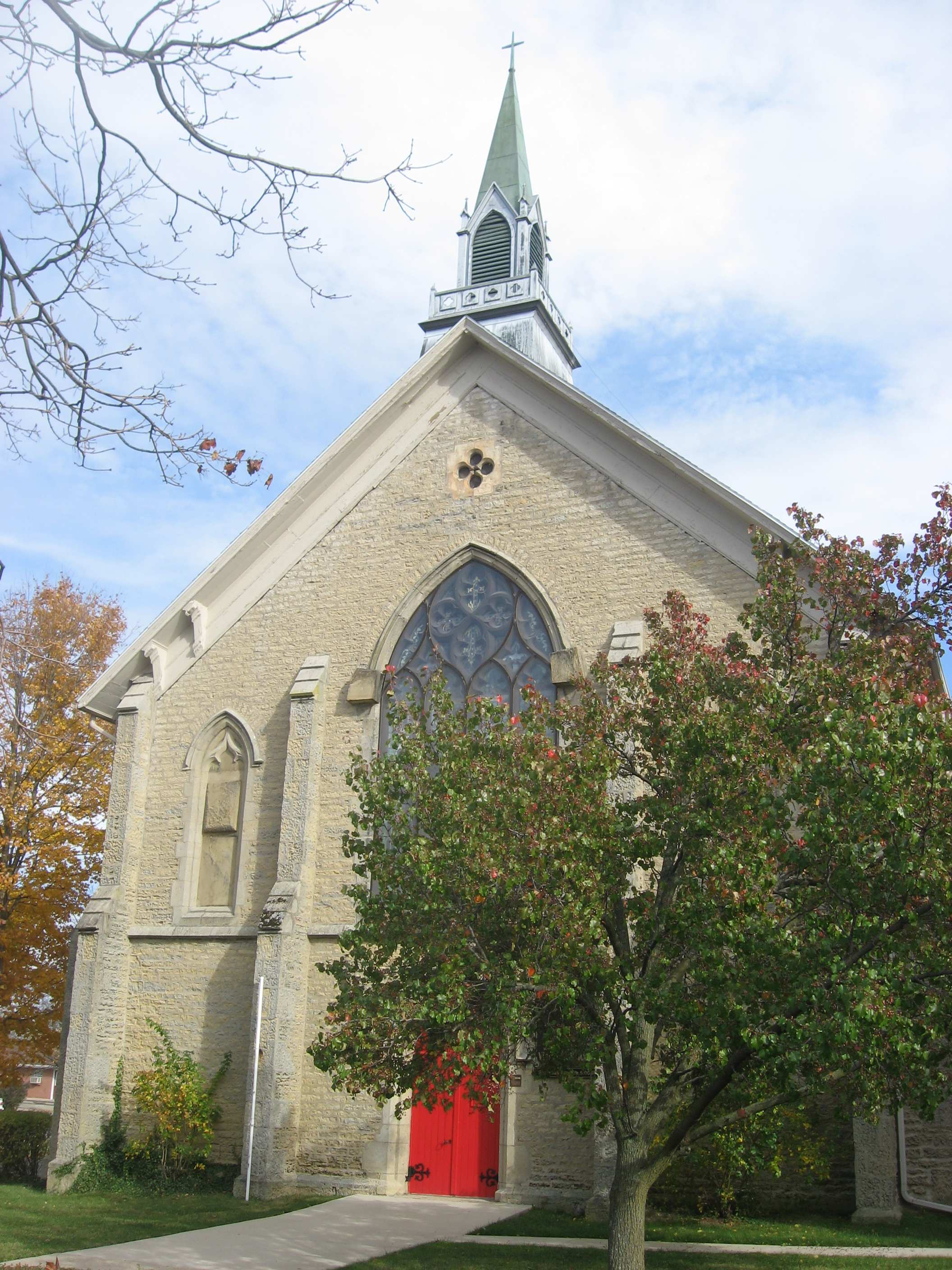 Front of St. Mary's Episcopal Church, located at 232 N. High Street (U.S. Route 62/State Routes 73/138) in Hillsboro, Ohio, United States. Built in 1854, it is listed on the National Register of Historic Places.